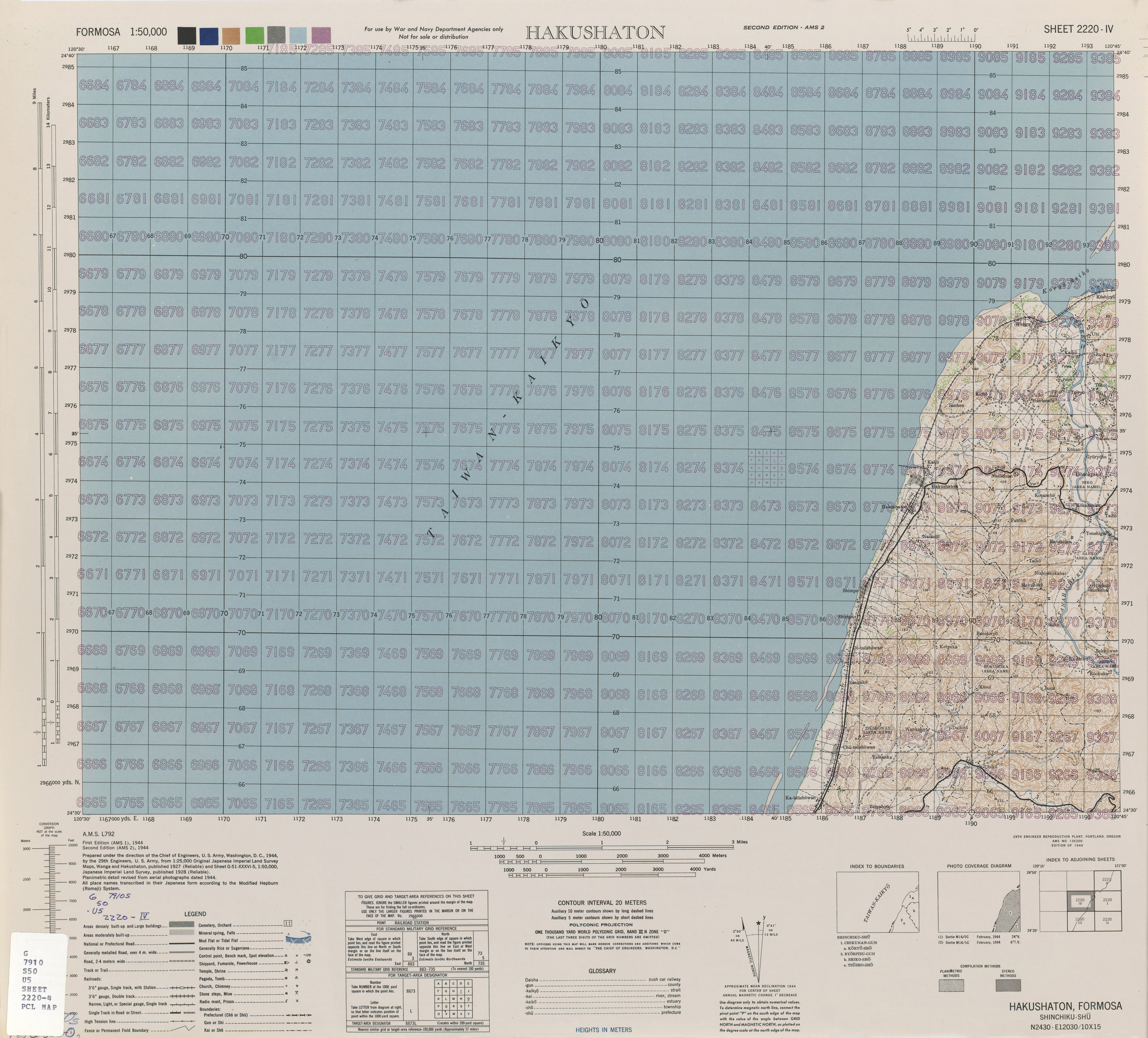 Map from Formosa (Taiwan) 1:50,000 AMS Series L792